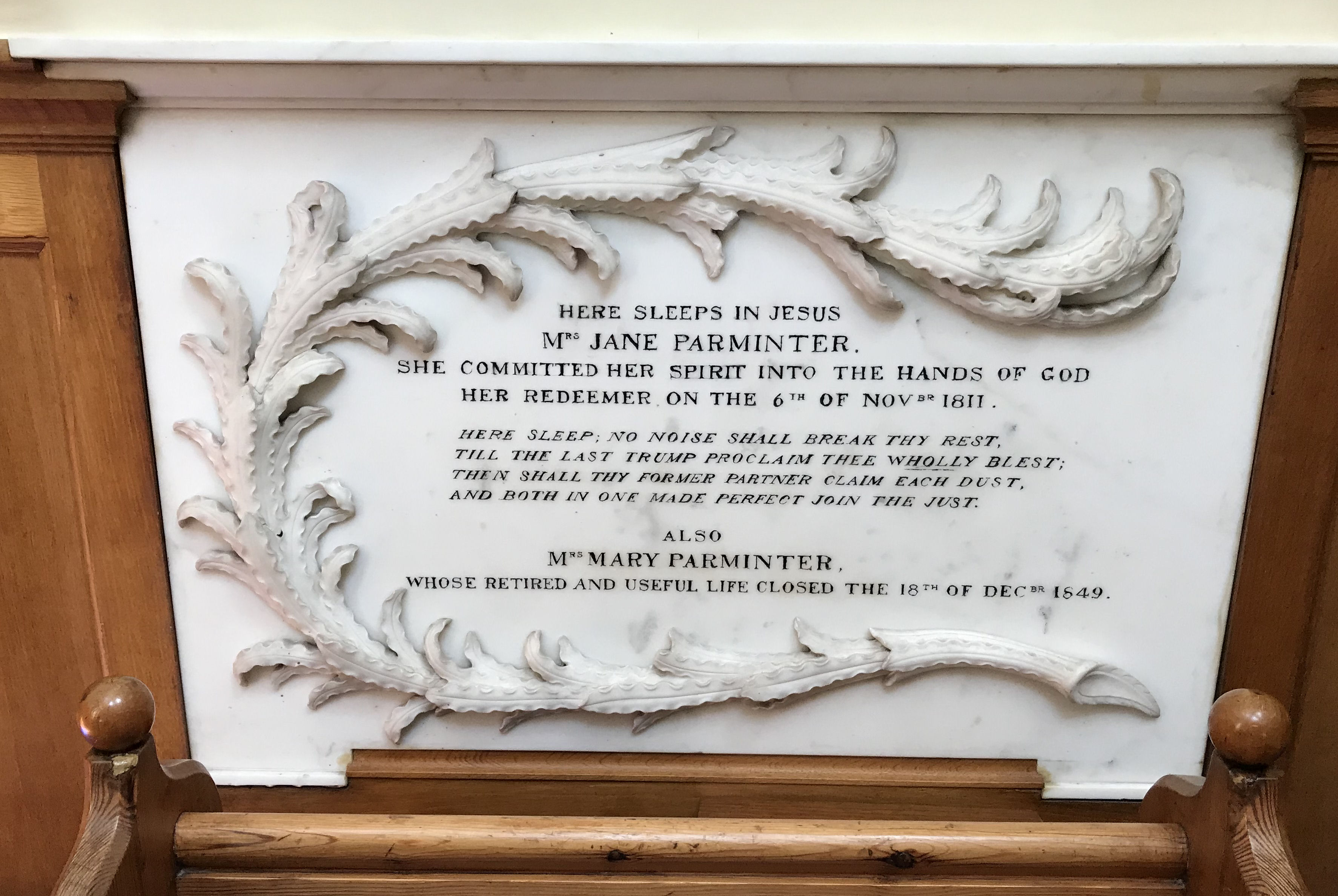 Memorial plaque to the Misses Parminter who are buried beneath the Point-in-View chapel at A la Ronde in Devon